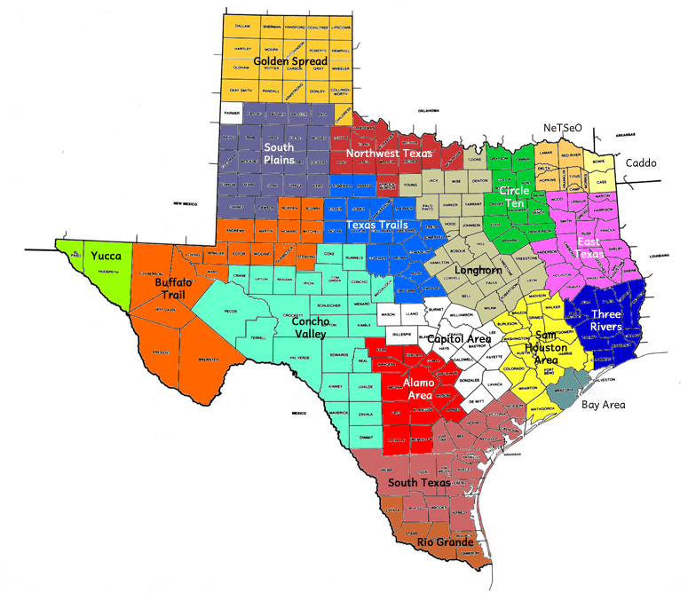 Some counties are served by more than one council. The council boundaries here are approximate, based on each council's description of its service area.